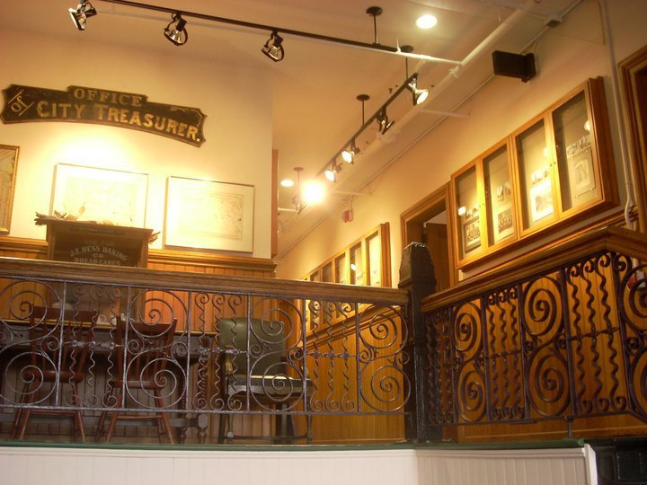 The first view awarded to one who steps onto the third floor of Carbondale City Hall. The Carbondale Historical Society is located here.